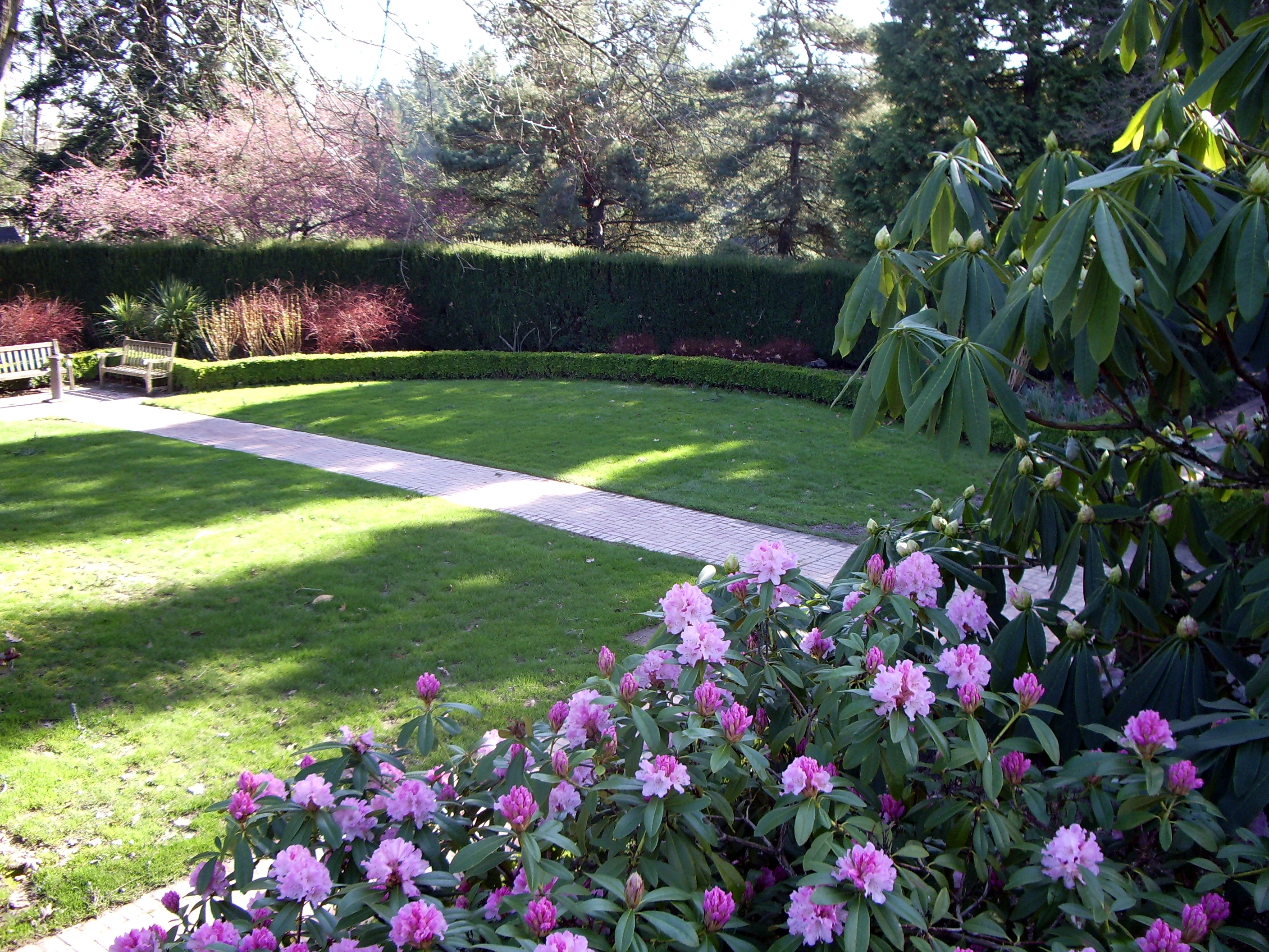 International Rose Test Garden Wintertime Shakespeare garden